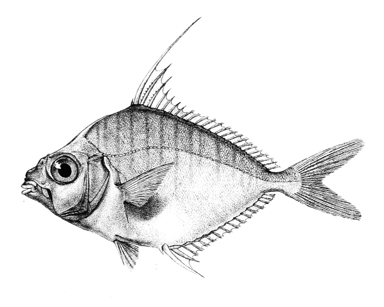 The species names / identity need verification. The original plates showed the fishes facing right and have been flipped here. Equula fasciata